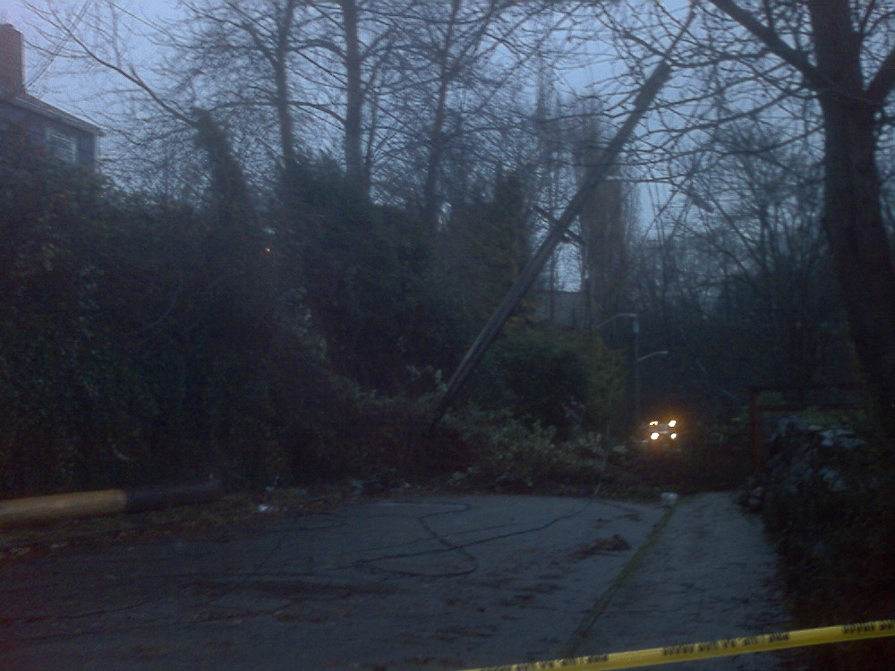 Landslide generated by torrent of rainstorm runoff in Madison Valley. Taken on December 20, 2006. Personal image.